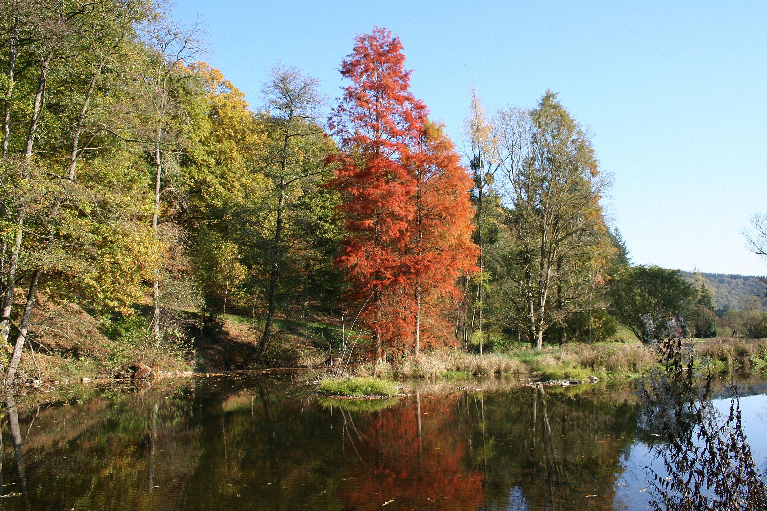 Rendeux (Belgium), the Ourthe river and the Taxodium distichum (Taxodium distichum) of the Arboretum Robert Lenoir in the autumn.